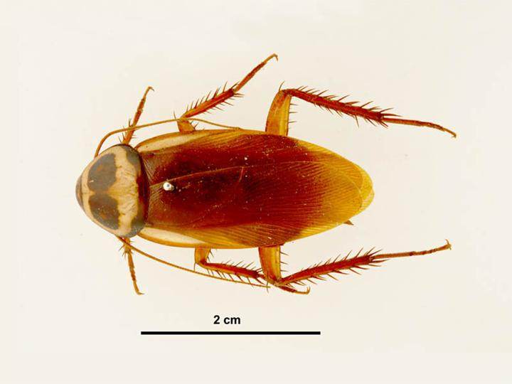 Periplaneta australasiae (Australian cockroach) top (dorsal) view